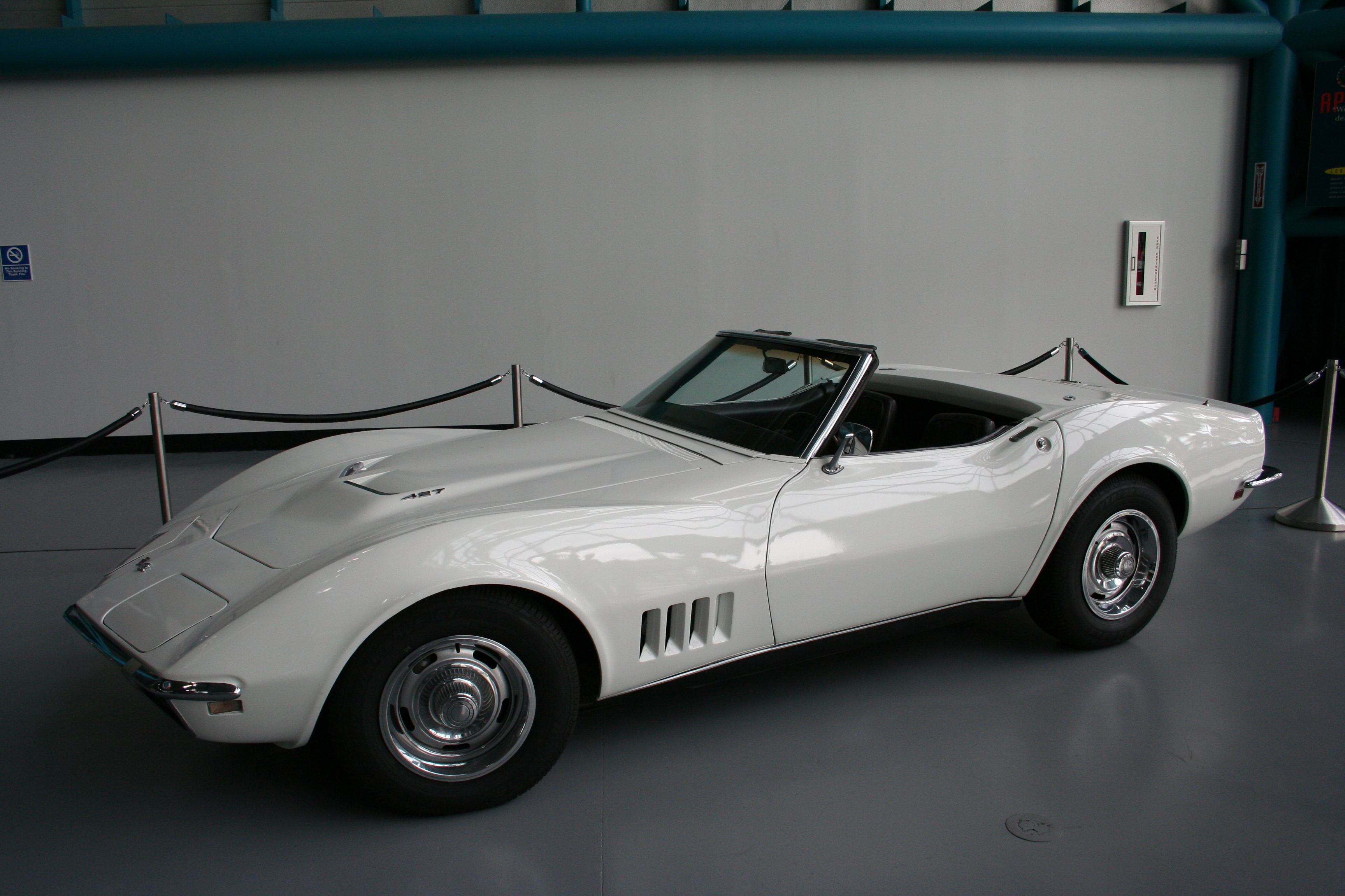 Alan Shepard's Corvette Stingray on display at the Apollo/Saturn V Center